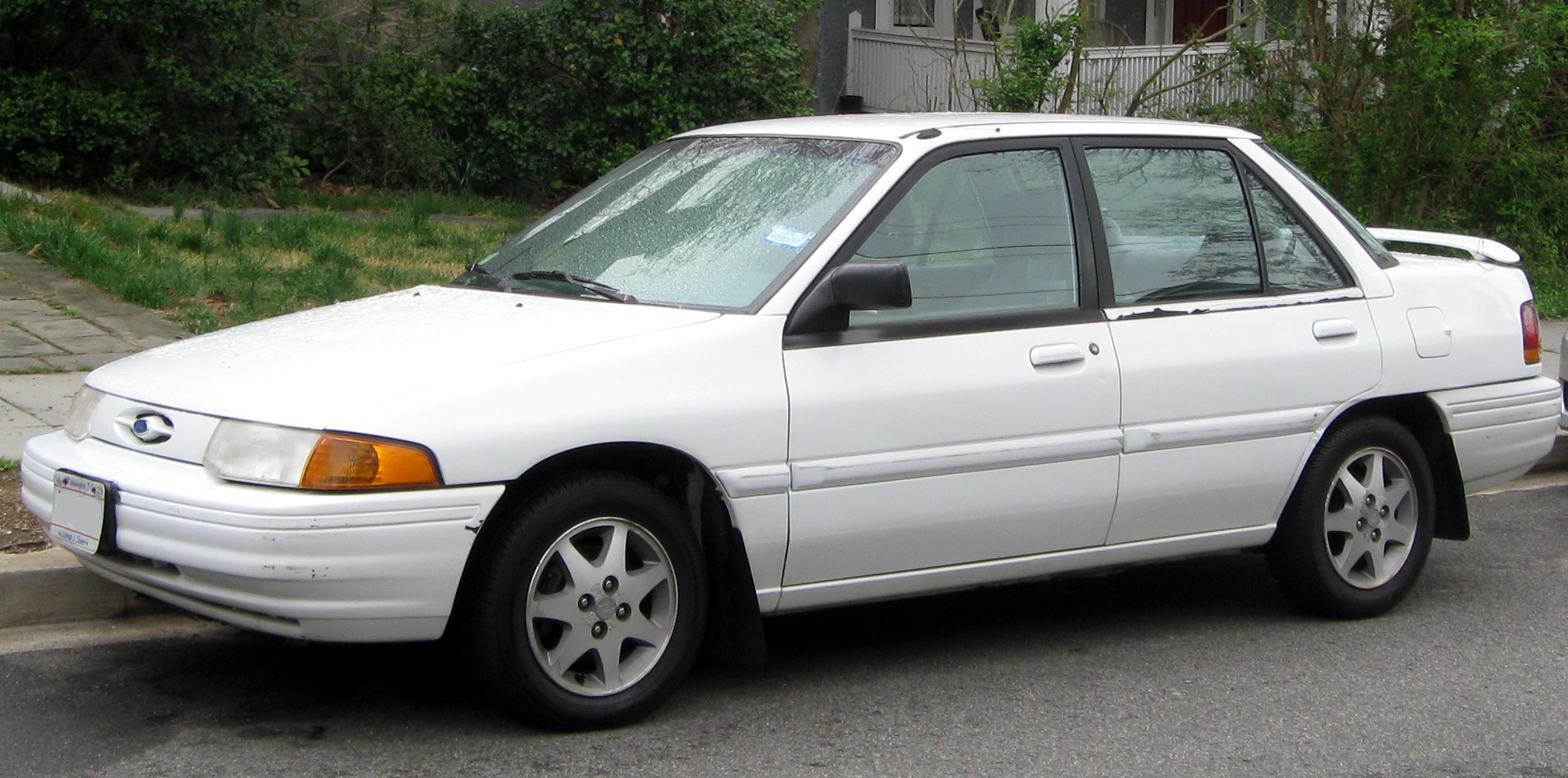 1995-1996 Ford Escort photographed in Washington, D.C., USA.